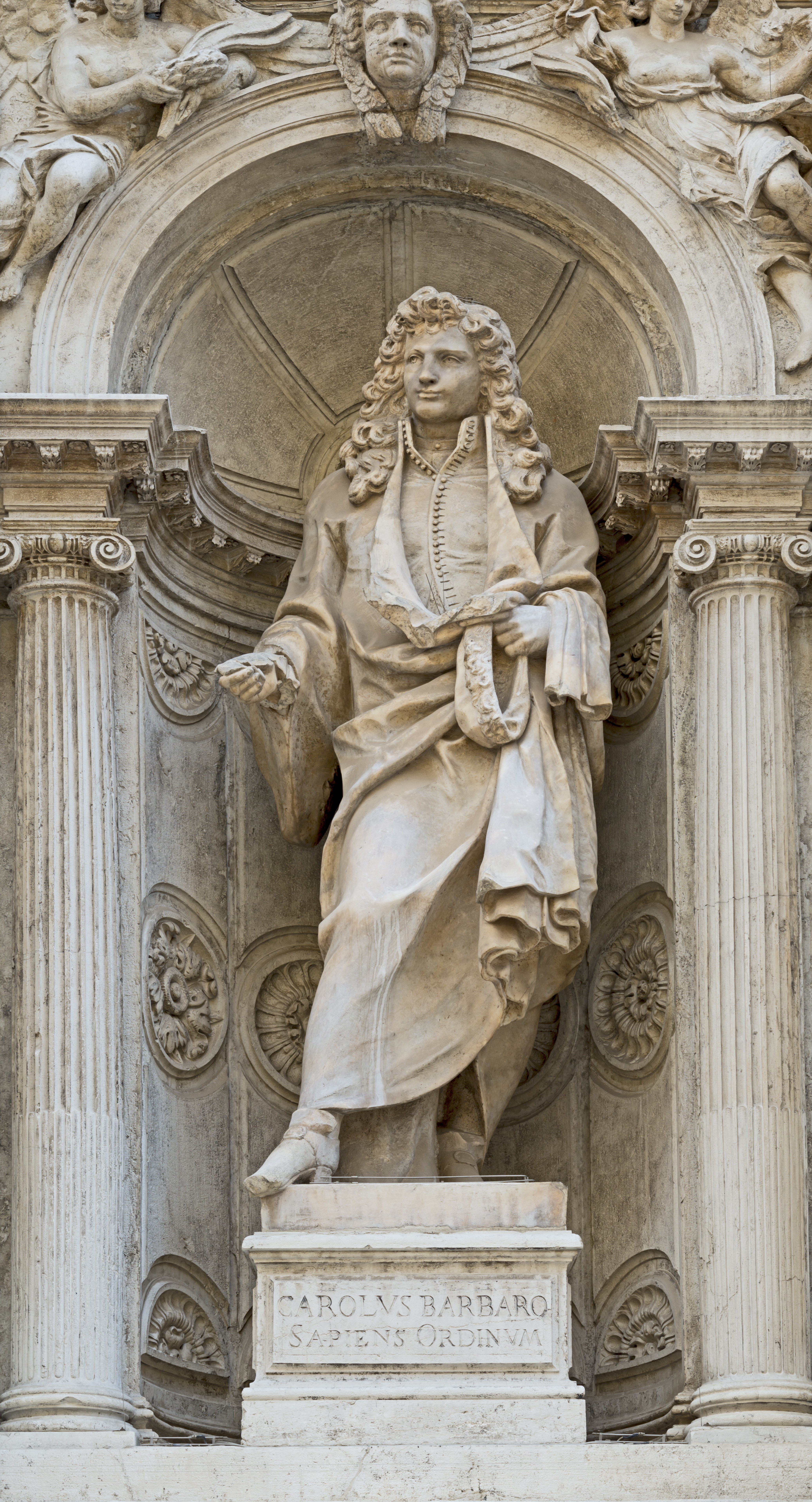 Church Santa Maria del Giglio in Venice Facade - Statue of Carolus Barbaro attributed to Enrico Merengo.